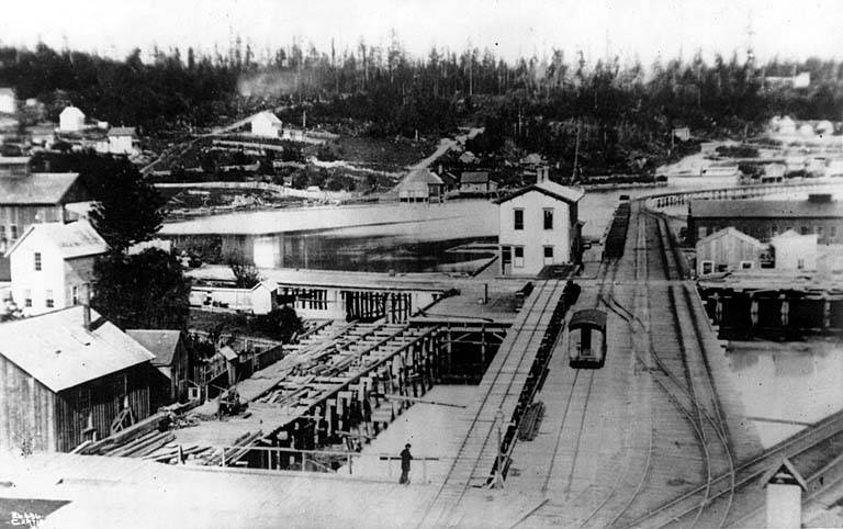 Original photographer unknown. Copied by Theodore Peiser. Subjects (LCTGM): Railroad stations--Washington (State)--Seattle; Piers & wharves--Washington (State)--Seattle Subjects (LCSH): Columbia and Puget Sound Railway (Firm) Columbia and Puget Sound Railway was the reorganized Seattle and Walla Walla Railroad